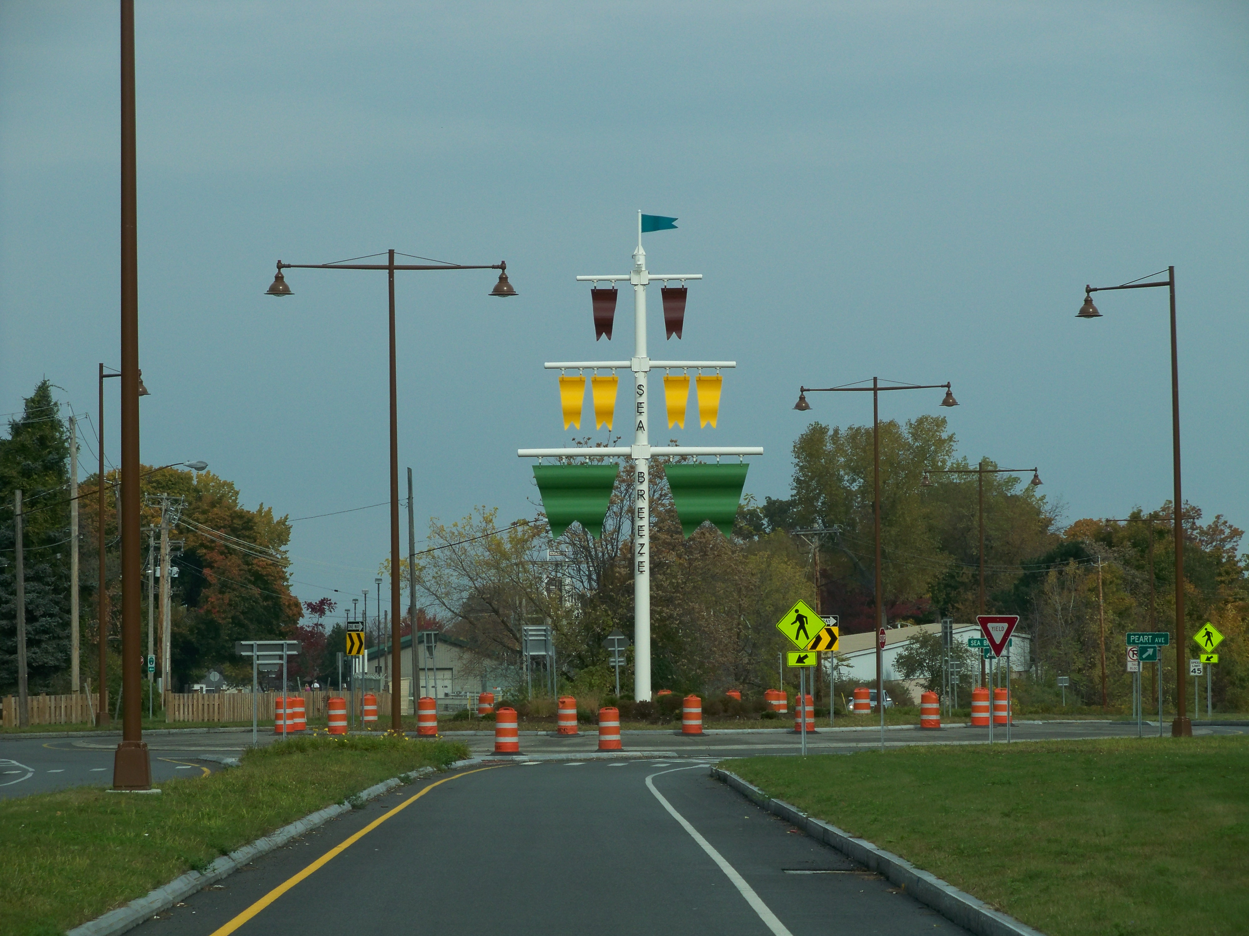 Northbound on Sea Breeze Drive (former New York State Route 590) at Durand Boulevard in Irondequoit, New York.